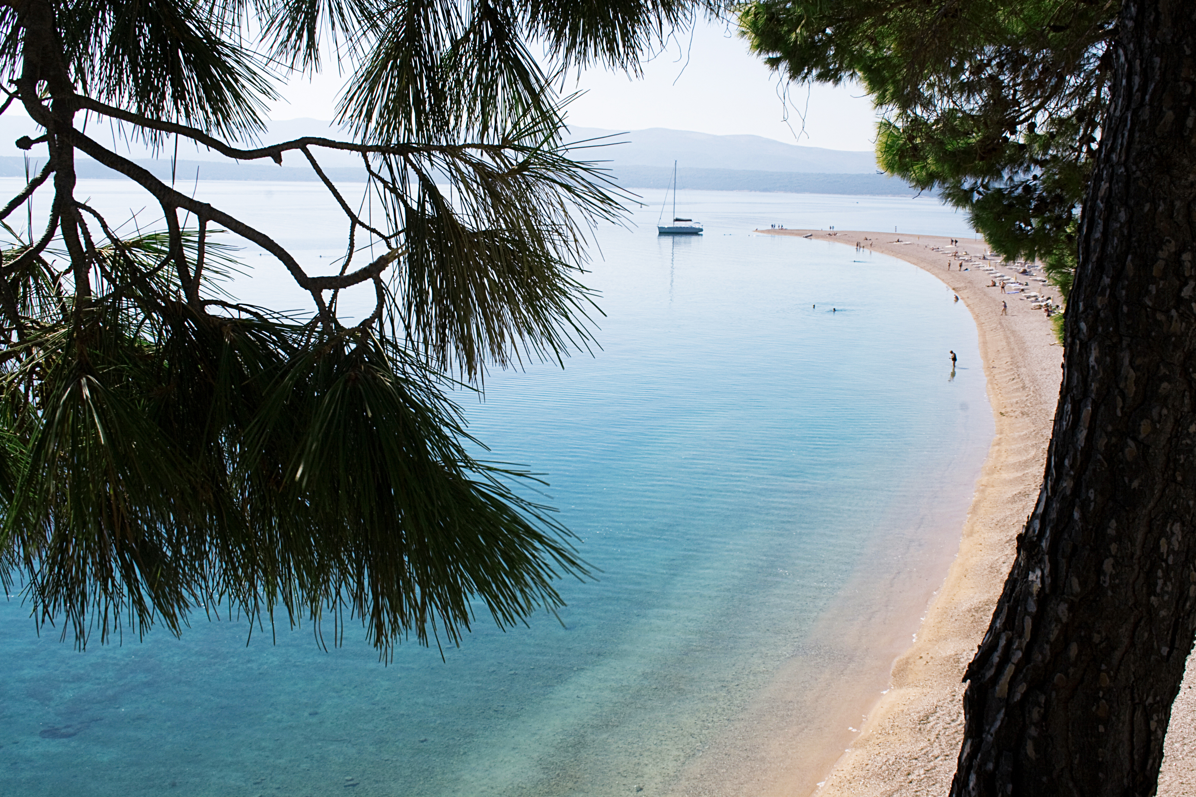 Goldenes_Horn_(Bol,_Brac)